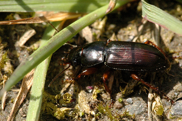 Picture taken in Commanster, Belgian High Ardennes . Species: Harpalus affinis